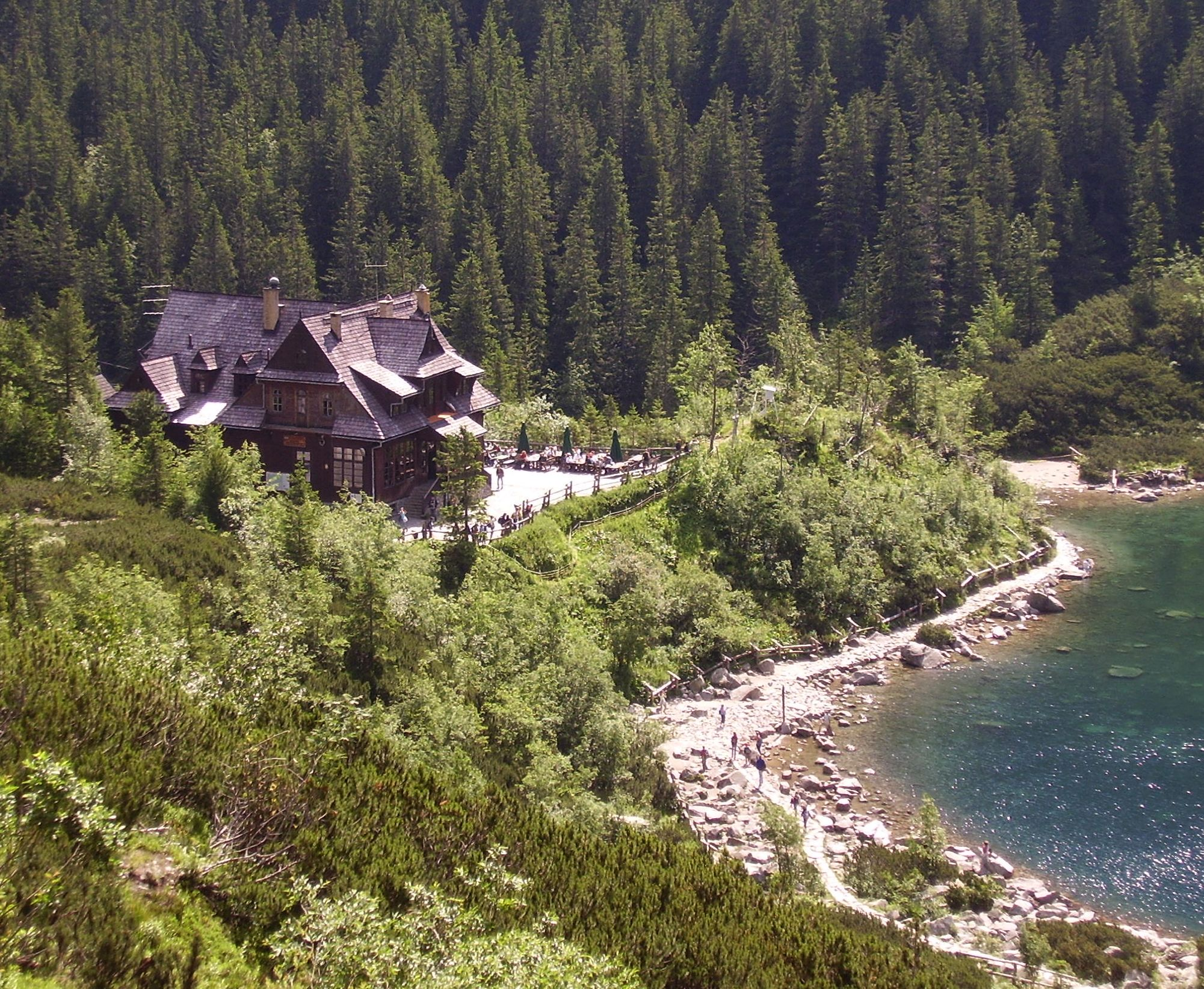 Mountain hut in Tatra Mountains next to Morskie Oko